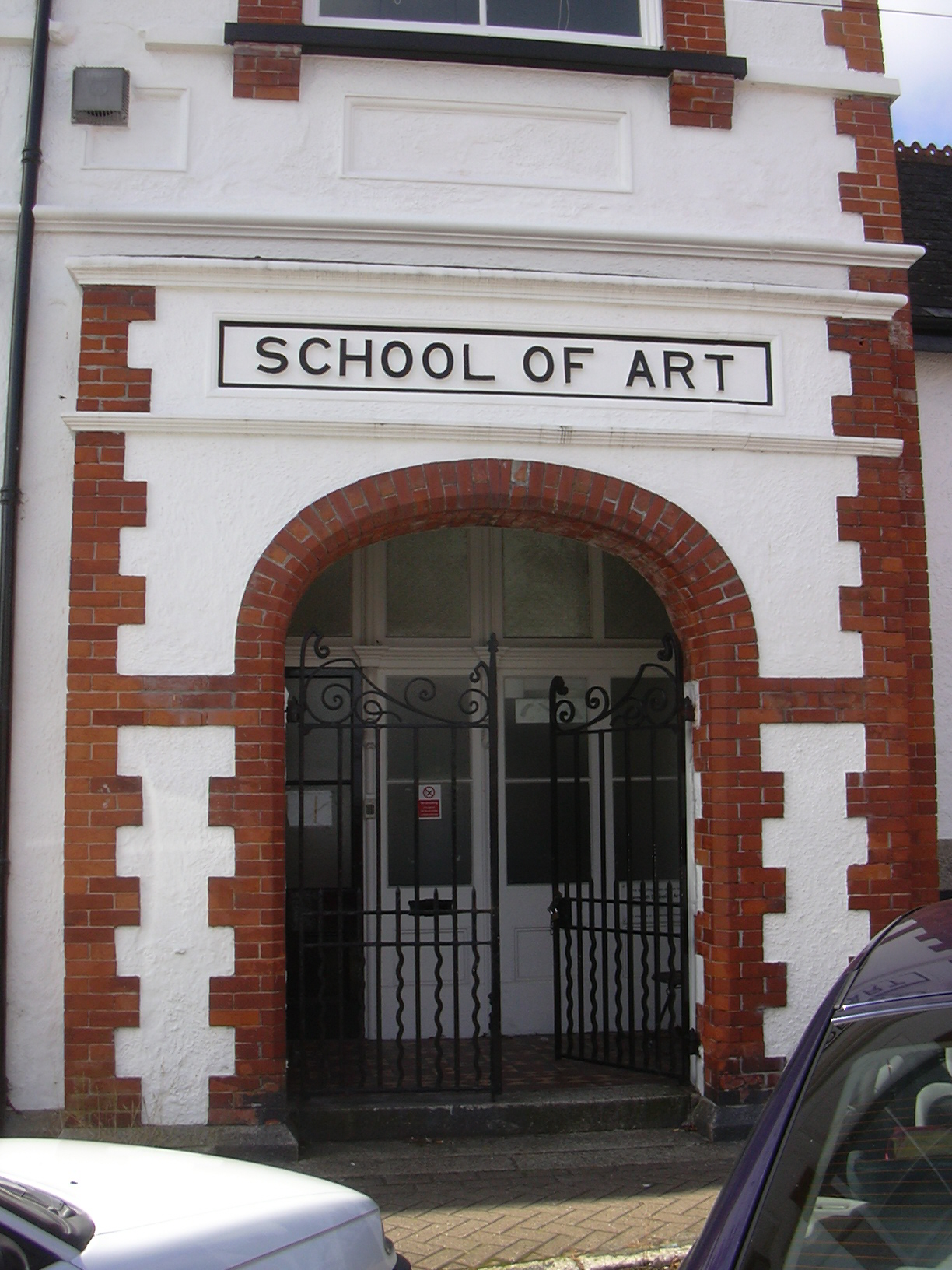 Falmouth School of Art Annexe, Arwenack Avenue, which today is home to MA Fine Art: Contemporary Practice.